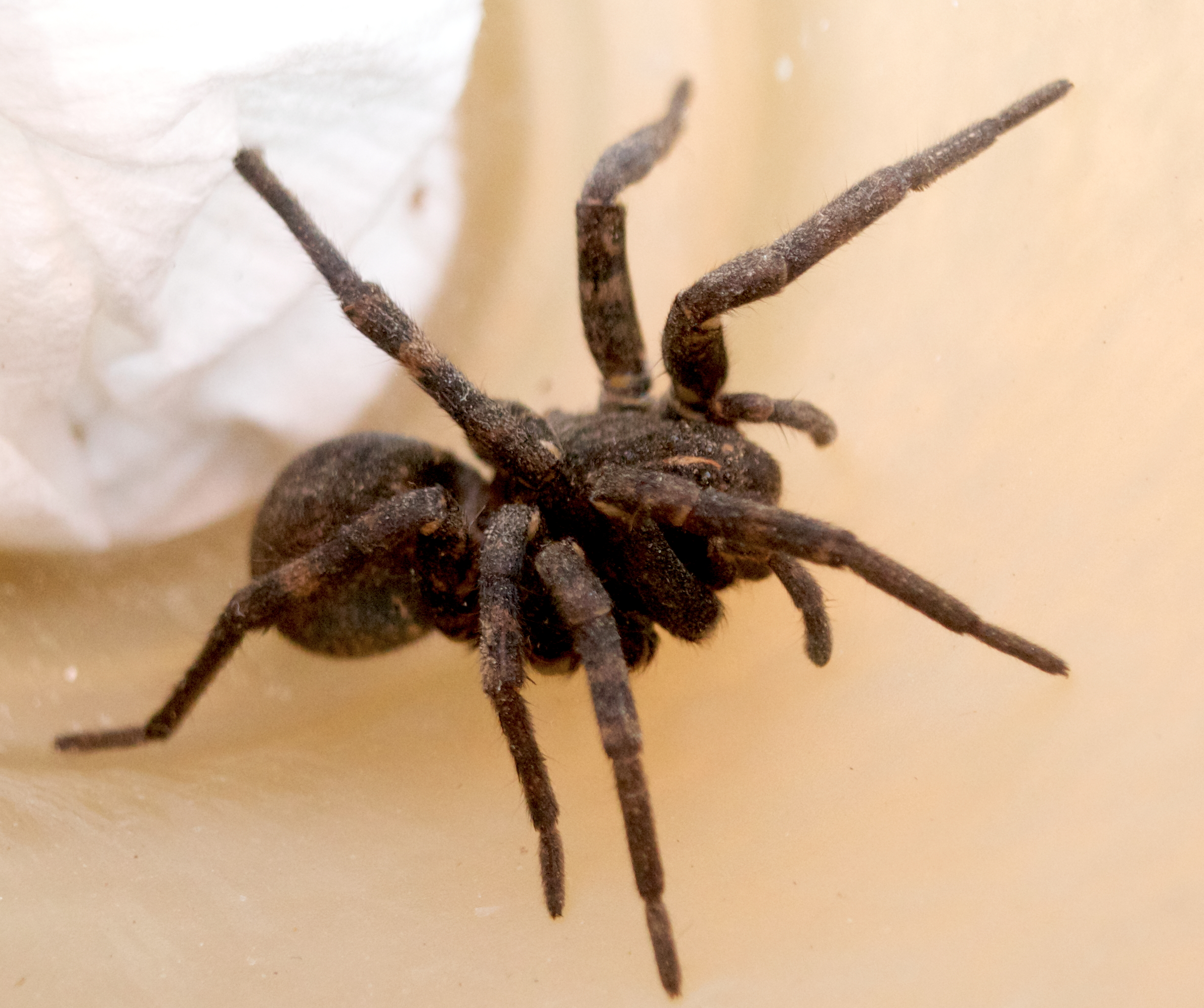 Originally identified as Hogna carolinensis, female, body length 25mm. Found at 36° N 80° W. Likely to be a Tigrosa species based on the narrow yellowish median stripe on the carapace.